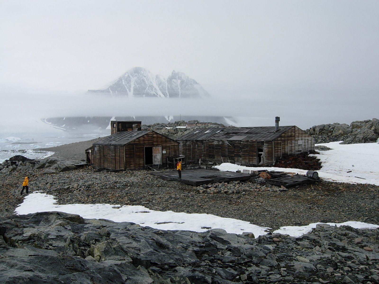 The abandoned US East Base on Stonington Island, Marguerite Bay, Graham Land.